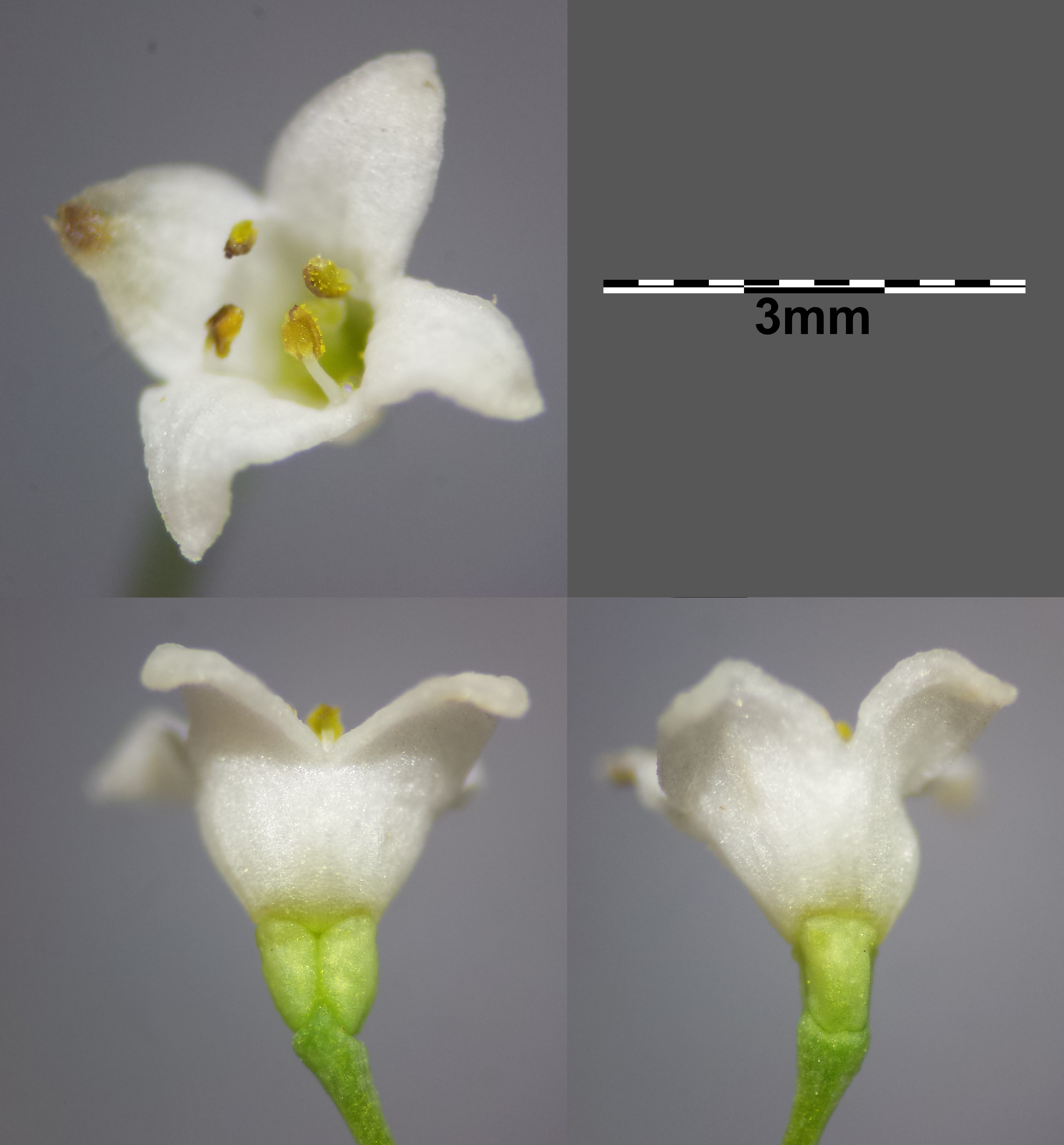 Flower Taxonym: Galium glaucum ss Fischer et al. EfÖLS 2008 ISBN 978-3-85474-187-9 Location: Steinberg near Niederhollabrunn, district Korneuburg, Lower Austria - ca. 370 m a.s.l. Habitat: semi-dry grassland